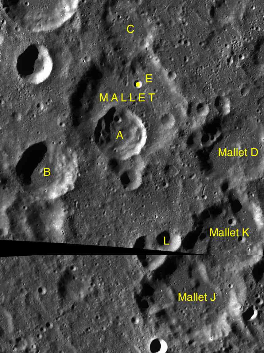 Parts of the charts LAC-114, LAC-128 used for the presentation